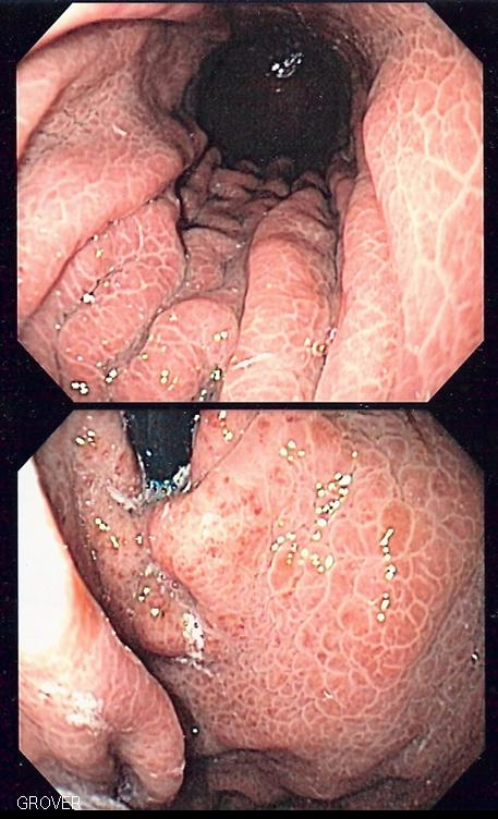 Image of portal hypertensive gastropathy seen on endoscopy of the stomach. The normally smooth mucosa of the stomach has developed a mosaic like appearance, that resembles snake-skin. -- Samir 03:52, 14 August 2007 (UTC) Category:Endoscopic images